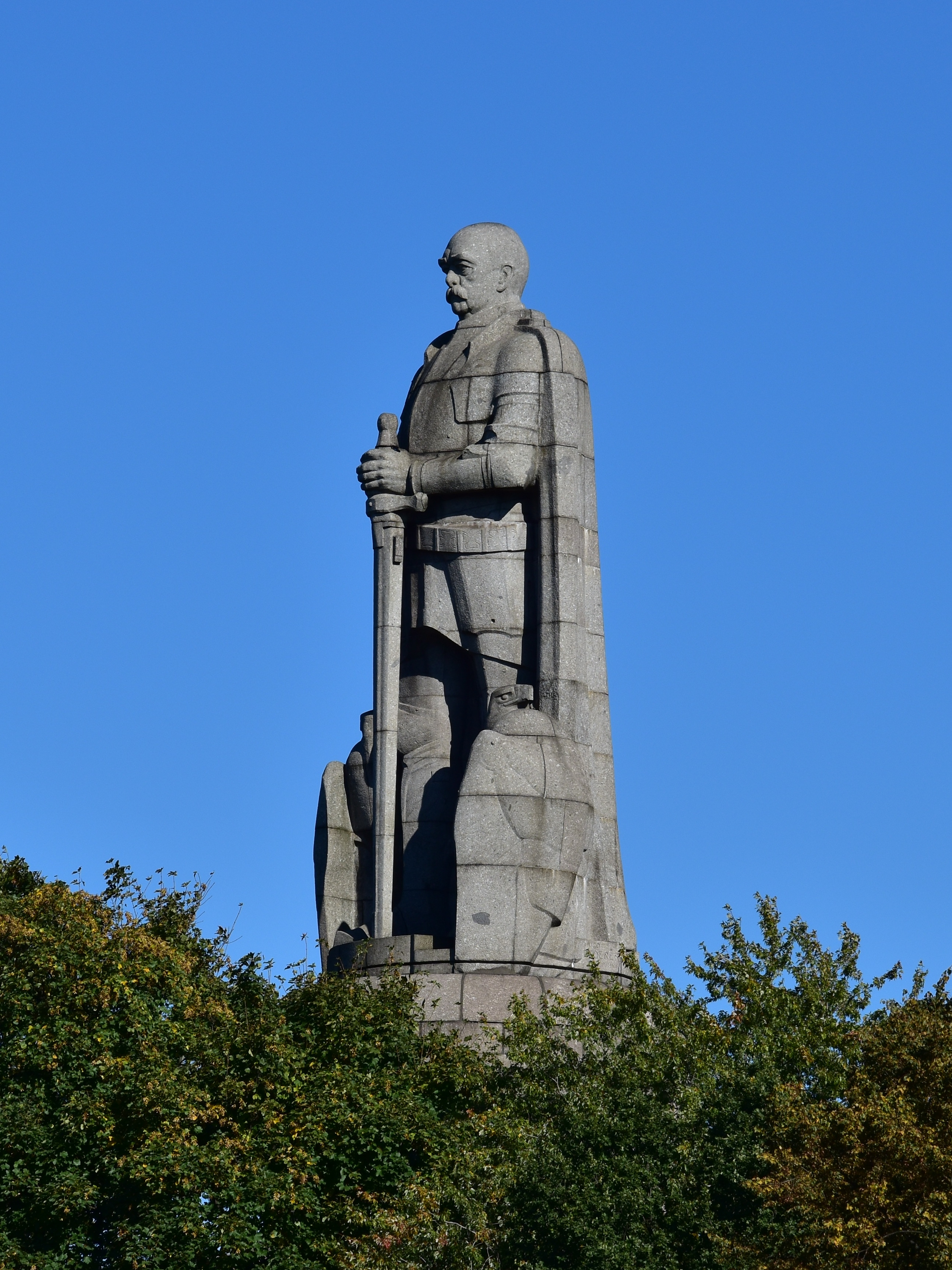 The Bismarck monument in Hamburg as seen from the Kersten Miles bridge, shortly to the southwest, in the bright autumn sun.